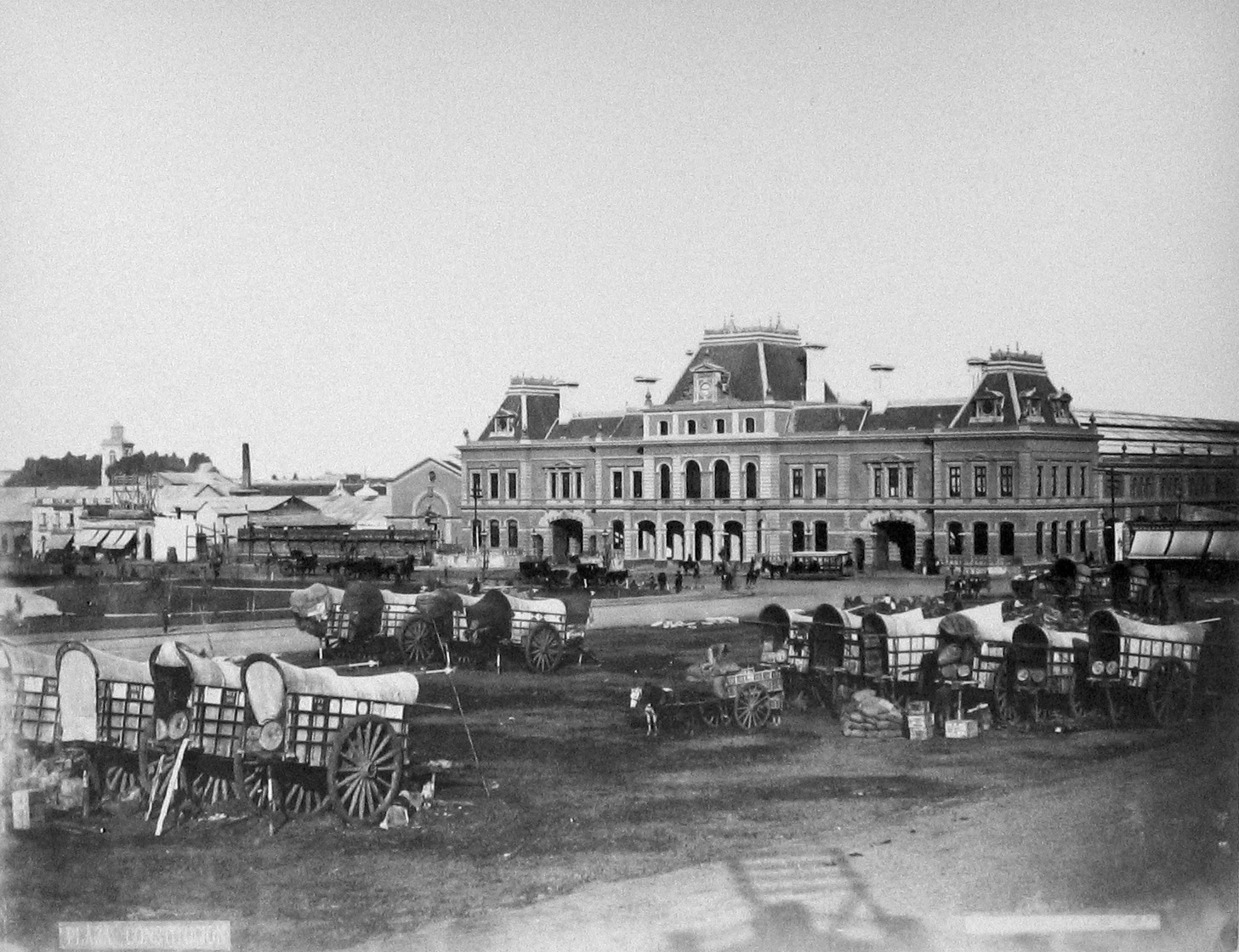 The Plaza Constitución railway station of Buenos Aires, with many carriages on the front.